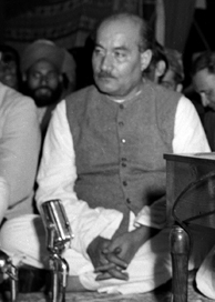 Josh Malihabadi participating in a mushaira which was organised in Srinagar by All Jammu&Kashmir National Conference.